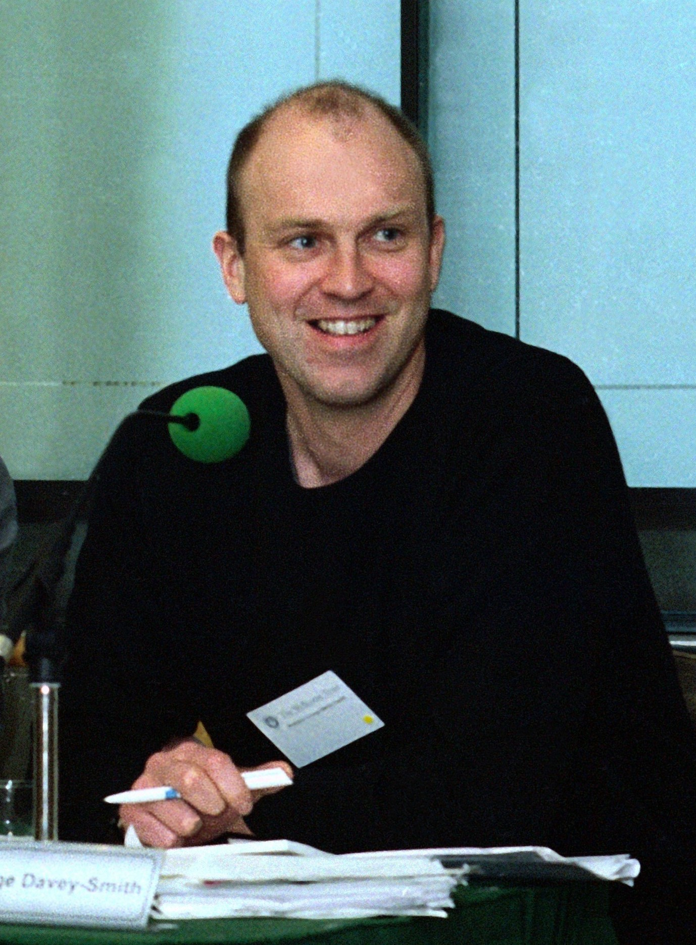 Professor George Davey-Smith at the Witness Seminar on ‘Population-Based Research In South Wales: The MRC Pneumoconiosis Research Unit and The MRC Epidemiology Unit’ held by The History of Twentieth Century Medicine Group.